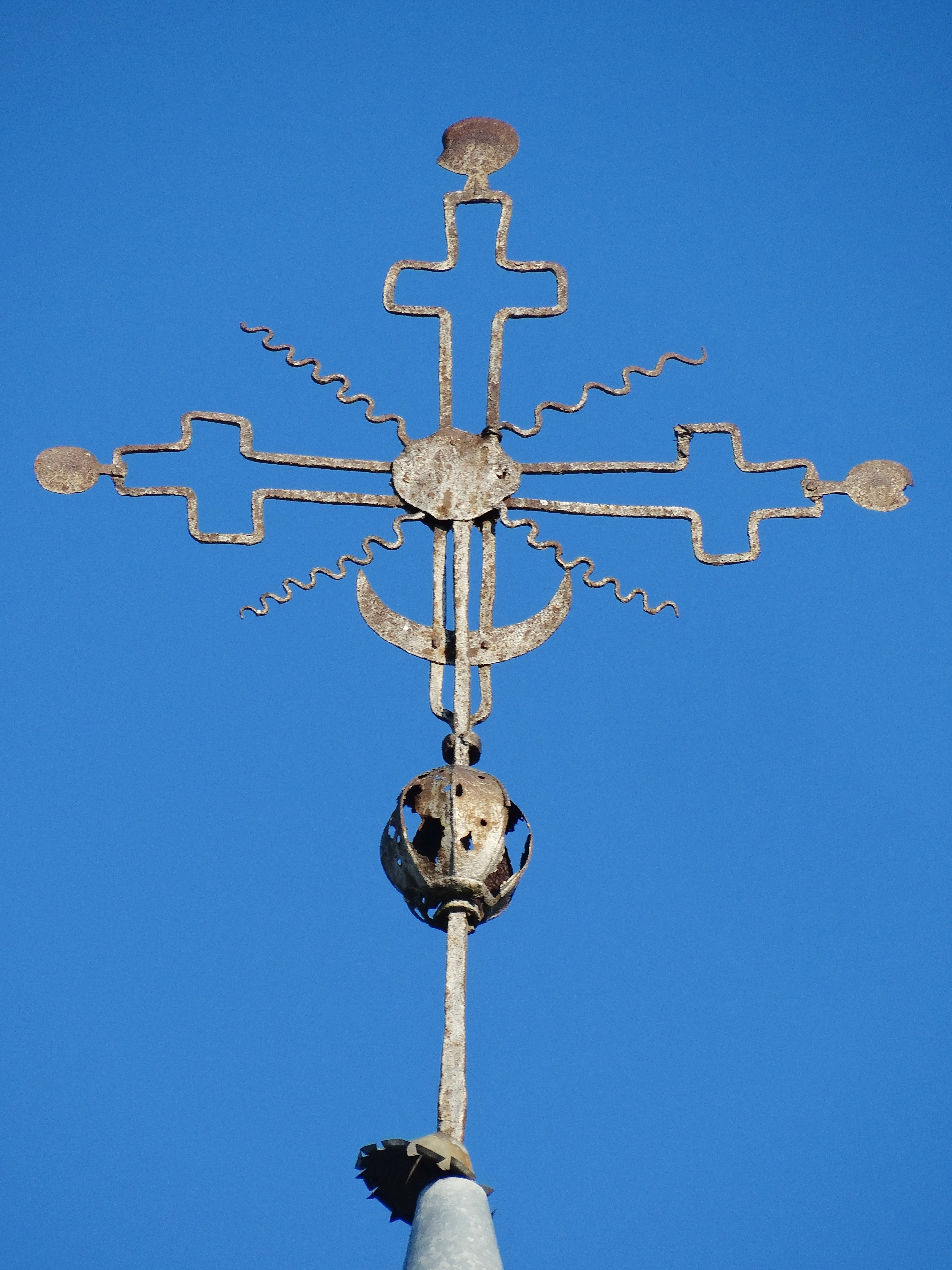 Chapel, tower cross, Sereikiai, Šiauliai district, Lithuania